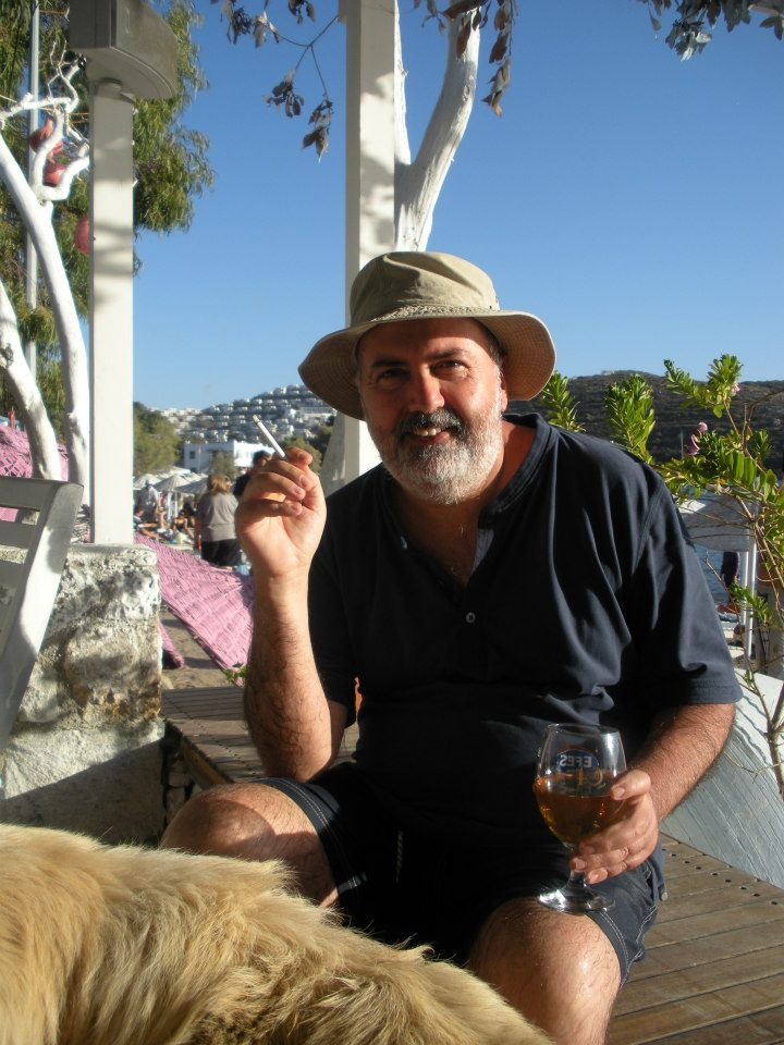 A Photo of Hikmet Temel Akarsu